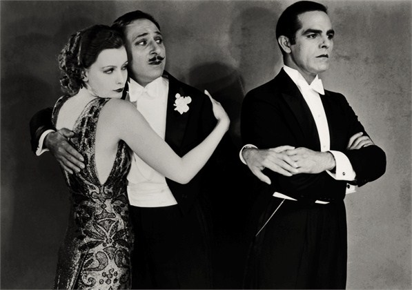 L. to R. : Greta Garbo, Armand Kaliz, and Antonio Moreno in The Temptress (1926) - publicity still.